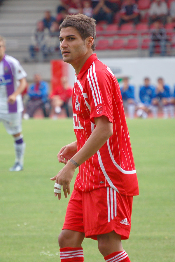 Youssef Mohamad during a pre-season match against Real Valladolid